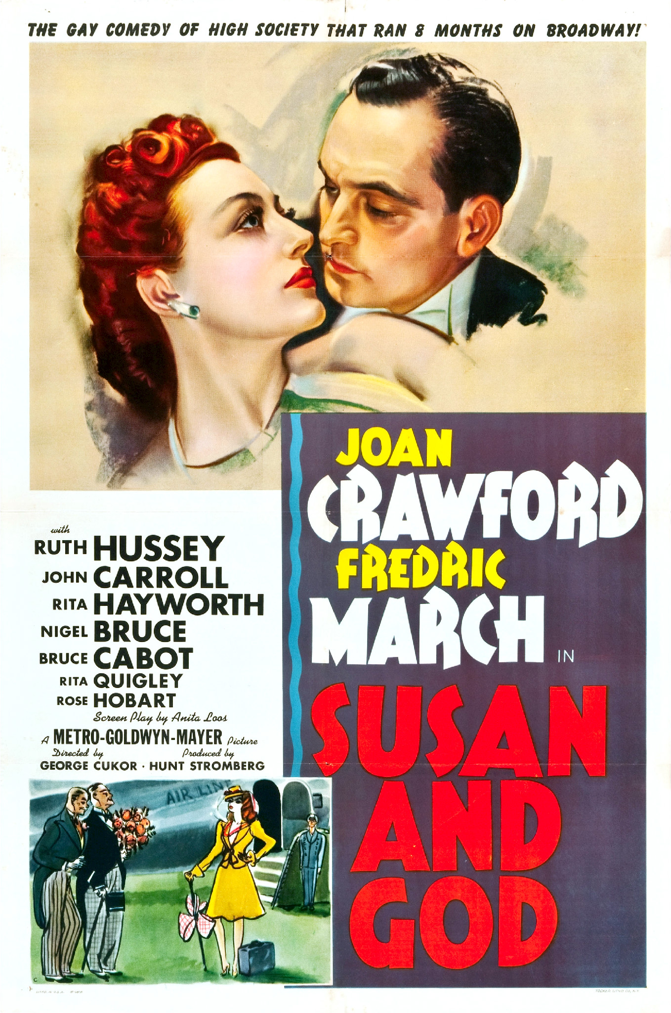 Poster for the 1940 film Susan and God. The item has no copyright markings on it as can be seen in the links above. At lower left is "C" (poster version C), Litho in USA #4818. At lower right is Tooker Litho Co., NY.